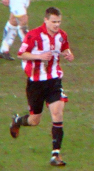 Andy Taylor in his Blades Kit.